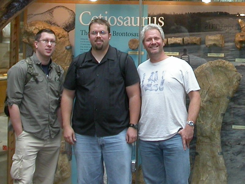 From left to right: Darren Naish, Matt Wedel, Mike Taylor, and the right humerus of Cetiosaurus oxoniensis. Mike’s T-shirt shows posterior dorsal vertebrae of the brachiosaurid NHM R5937.